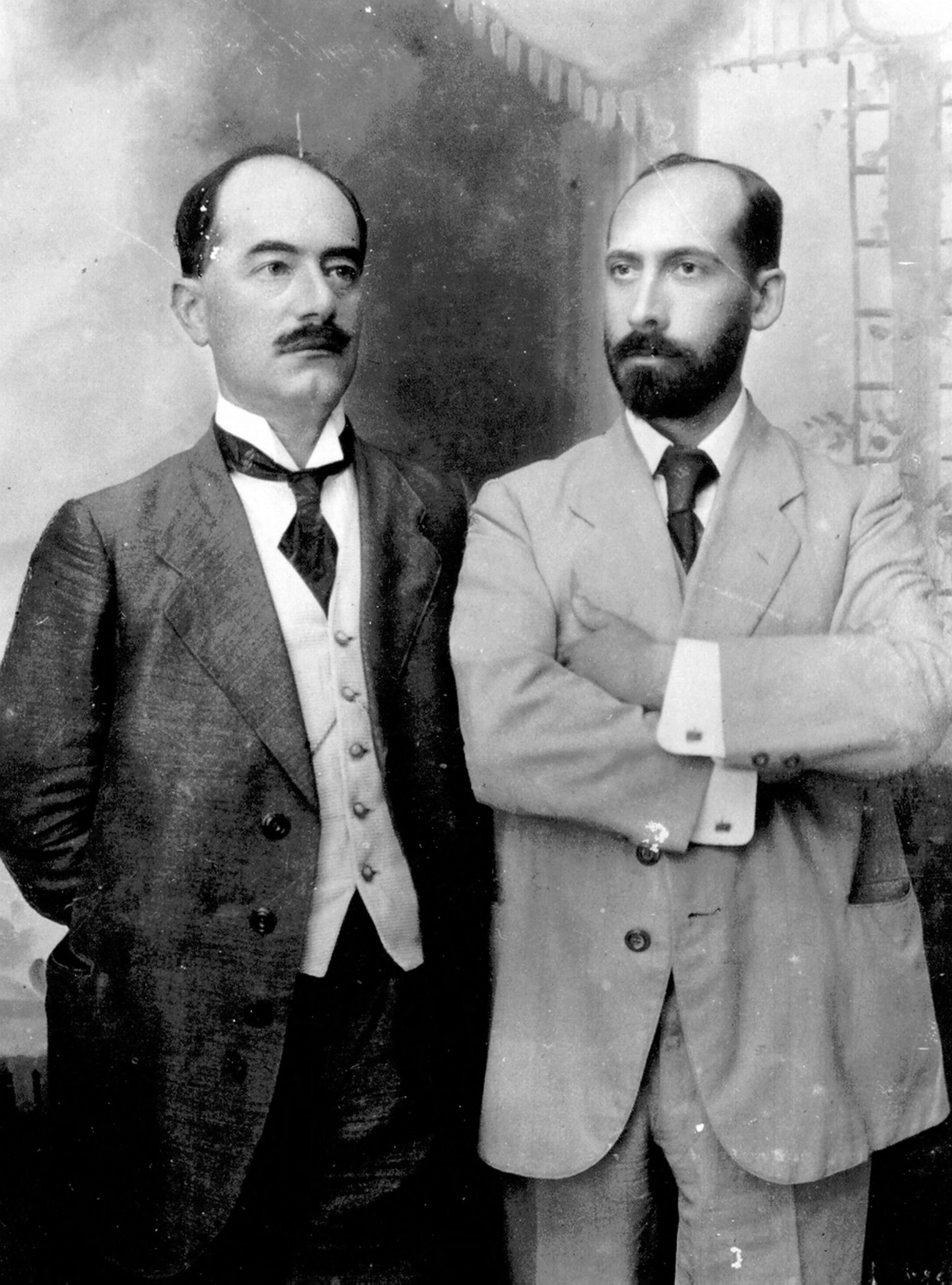 Arthur Ruppin (left) and Jacob Thon, Palestine Office (HaMisrad HaEretz Yisraeli) in Jaffa